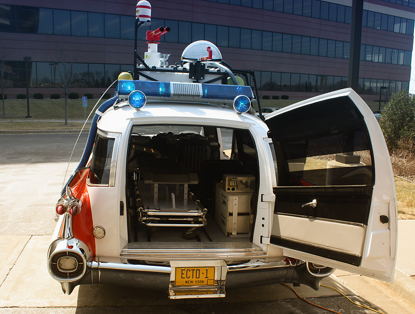 The Ghostbusters ectomobile emergency vehicle.Ghostbusters ECTO-1